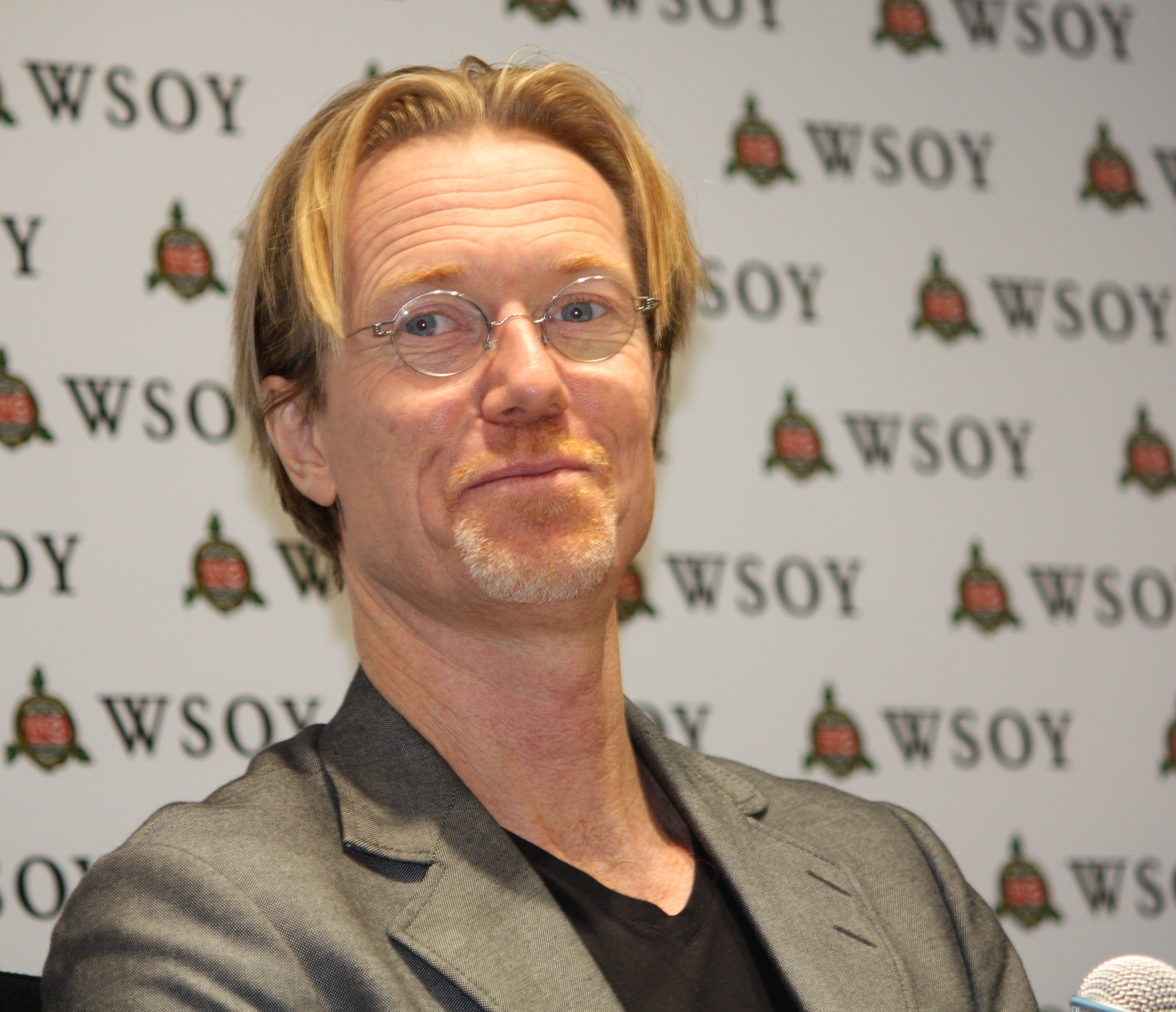 Swedish journalist and writer Anders Roslund at the Helsinki Book Fair 2011